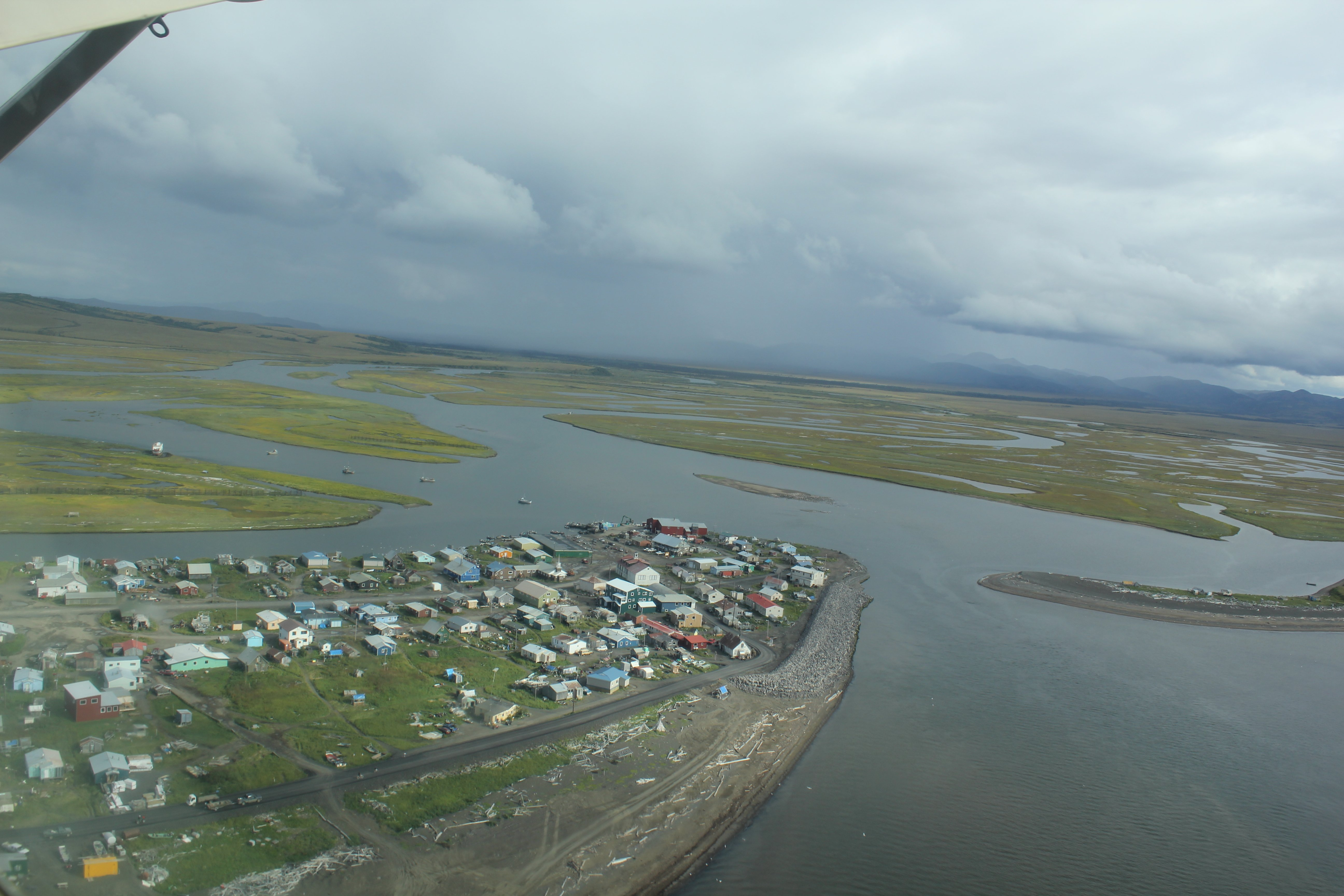 Native Village of Unalakleet. Unalakleet in Inupiat language is said to mean literally "Winds coming from the East." This is clearly visible in this image as the squall in the image came from the east and was soon raining on the Unalakleet Airport. Image ID: line5221, NOAA's America's Coastlines Collection Location: Alaska Photo Date: 2010 August